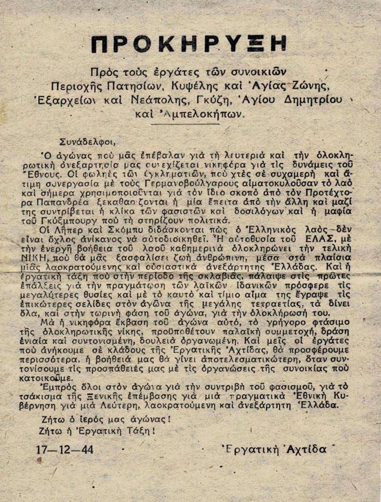 A pamphlet calling workers from different neighbours of Athens to fight against the Greek Government under Prime Minister Georgios Papandreou and its British support. Original document dimensions 18 cm x 13 cm.